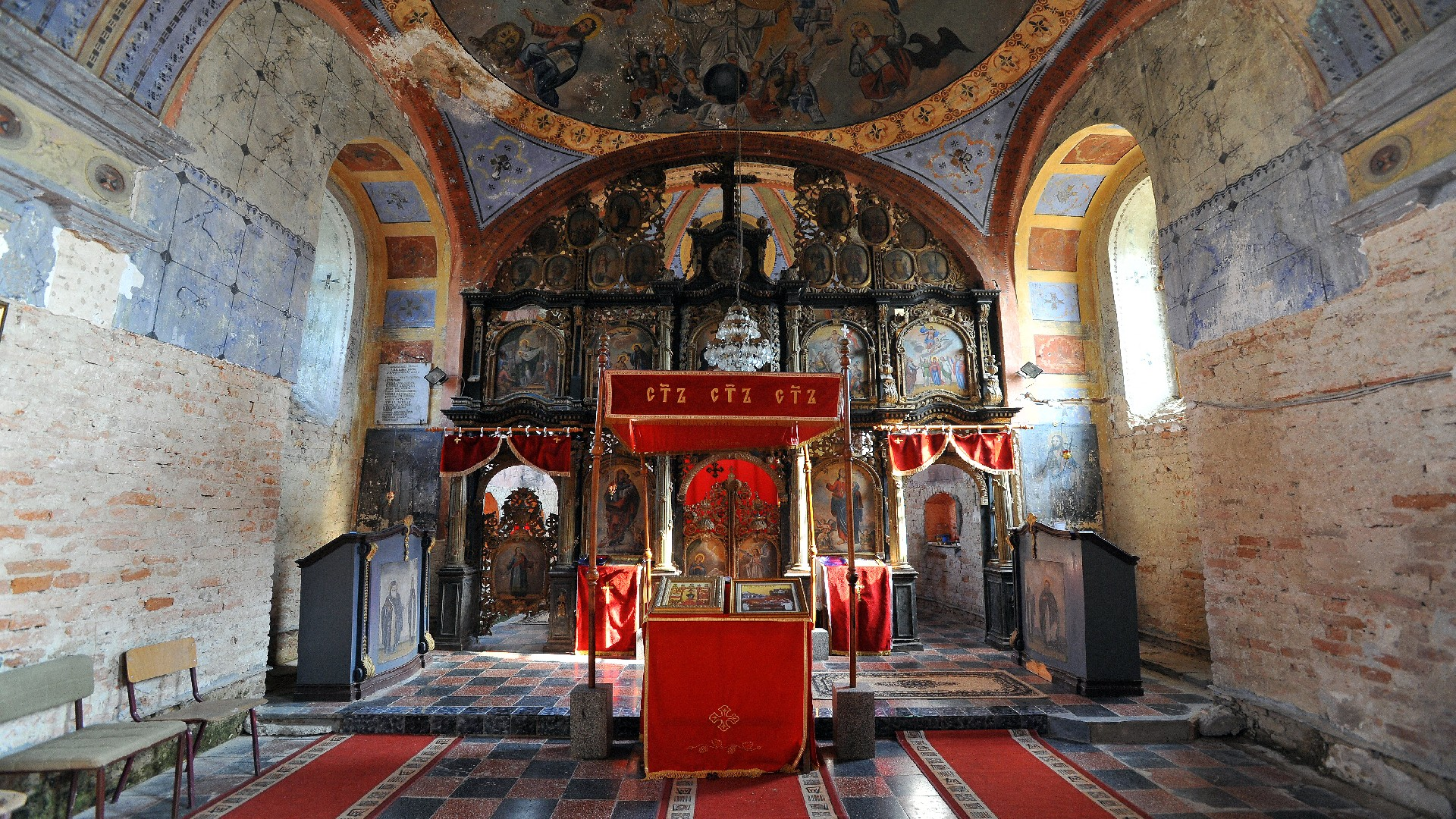 Naos and iconostasis inside of Church of Saint Nicholas in Karlovčić